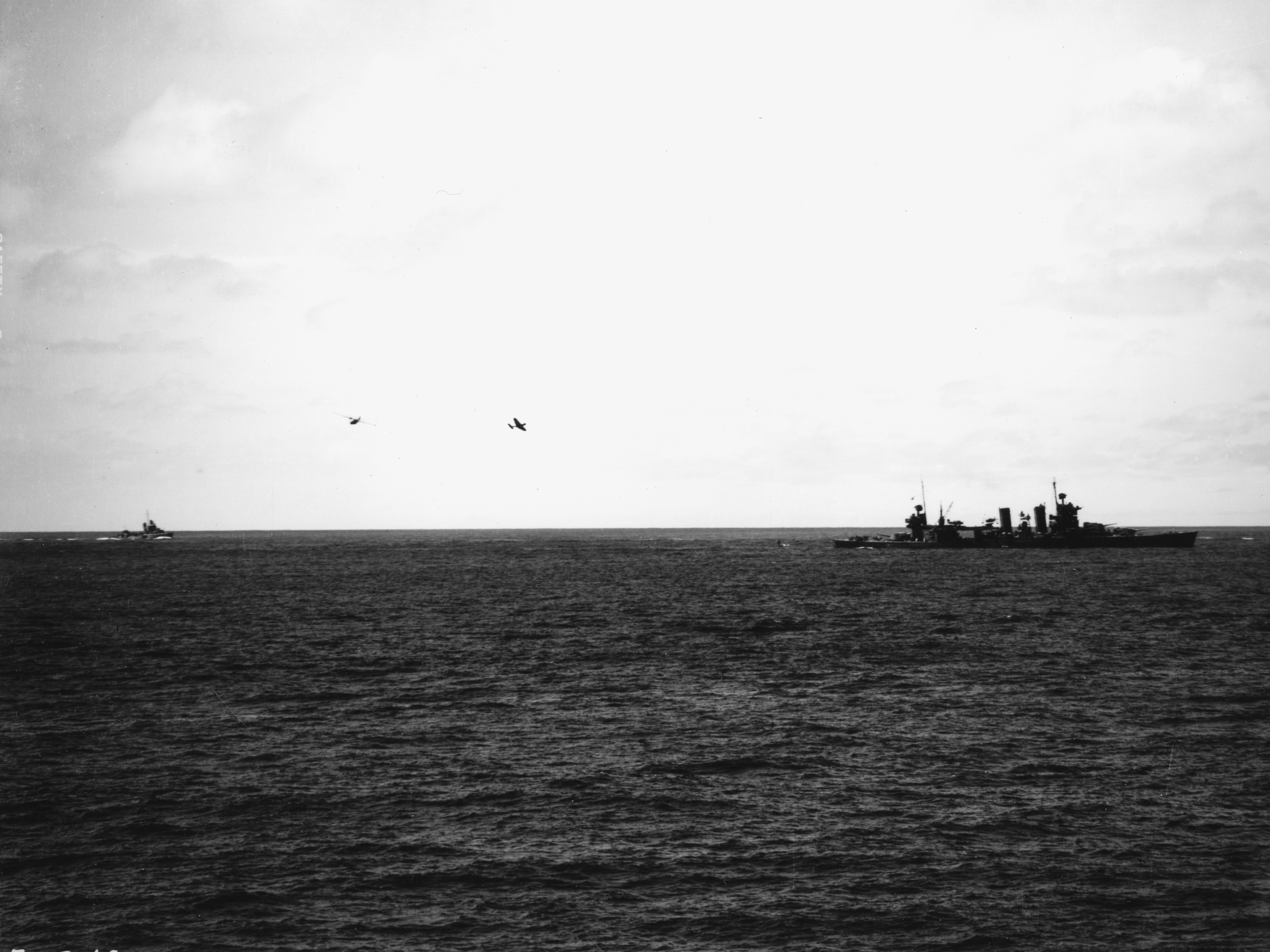 While U.S. Navy Lieutenant (Junior Grade) Fisler circles the scene in his Consolidated PBY-5 Catalina, LCdr. Max Leslie prepares to ditch his Douglas SBD-3 Dauntless dive bomber from Bombing Squadron 3 (VB-3) near the heavy cruiser USS Astoria (CA-34) between 1342 and 1348 hrs on 4 June 1942. Lt.(JG) Paul A. Holmberg's plane sinks aft of Astoria as he and his gunner are picked up by the cruiser's No. 2 motor whaleboat. The two VB-3 planes ditched near Astoria after they were unable to land on the damaged aircraft carrier USS Yorktown (CV-5). Note the destroyer at left.